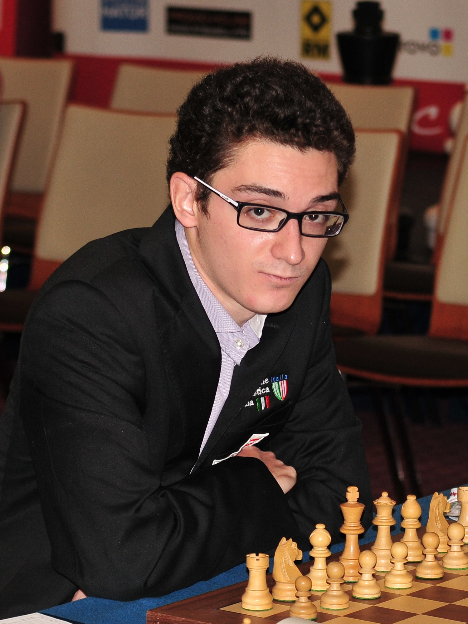 GM Fabiano Caruana, European Chess Team Championship Warsaw 2013